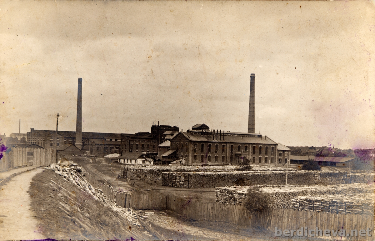 Sugar refinery in Berdychiv